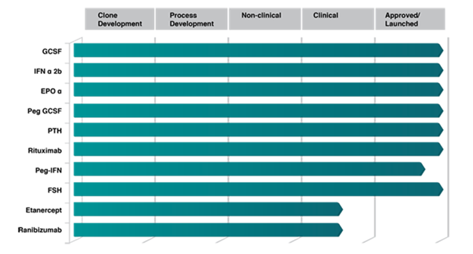 Intas Biosimilar development timeline